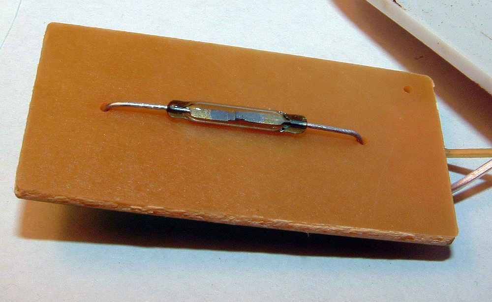 A reed switch on a board used in a self tipping rain gauge.